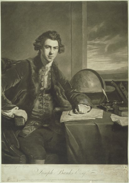 This is an image of a 50.5 x 35.5 cm mezzotint print of "Sir Joseph Banks when Mr Banks". That is, it purportedly shows Banks before he came into his baronetcy in 1761.